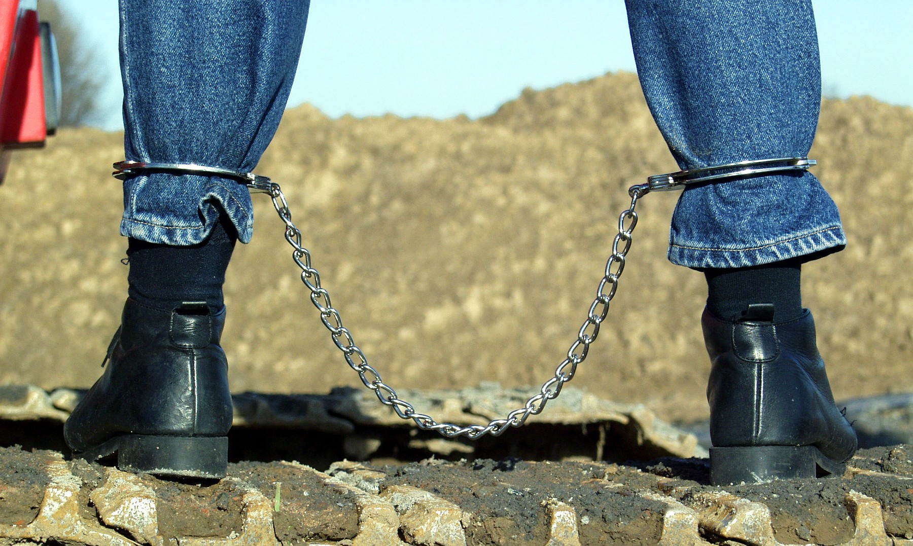 Fetters (leg irons) in use, photomodel Ina